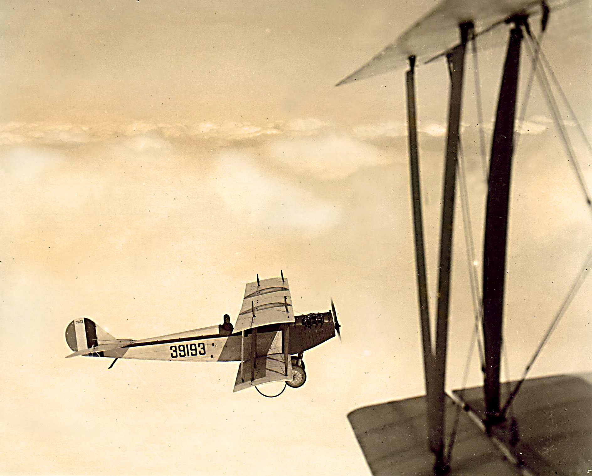 Curtiss JN-4 "Jenny" formation flight training over Rockwell Field, San Diego. 1918